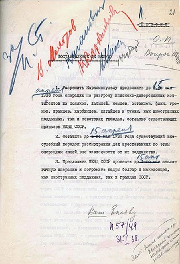 Resolution of Central Committee of the Communist Party of the Soviet Union. January of 1938. Approving signatures: Joseph Stalin, Vyacheslav Molotov, Lazar Kaganovich, Kliment Voroshilov, Anastas Mikoyan, Vlas Chubar. List with the sanction for the prolongation of national operations of the NKVD. Stored in the Archive of the President of the Russian Federation (АП РФ. Ф. 3. Оп. 58. Д. 254а. Л. 90).